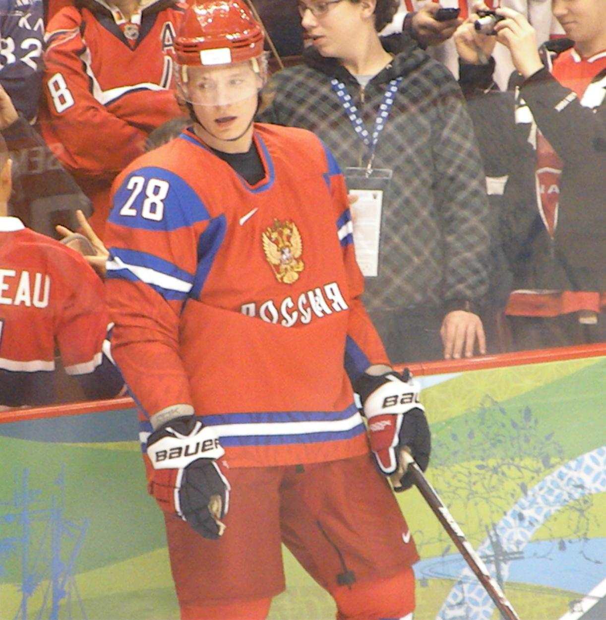 Alexander Semin of the Russia men's national ice hockey team, warming up before a match against the Latvia men's national ice hockey team in the 2010 Winter Olympics at Canada Hockey Place on February 16, 2010.